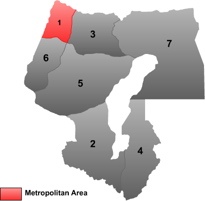 Map of Tacheng prefecture in Xinjiang Province